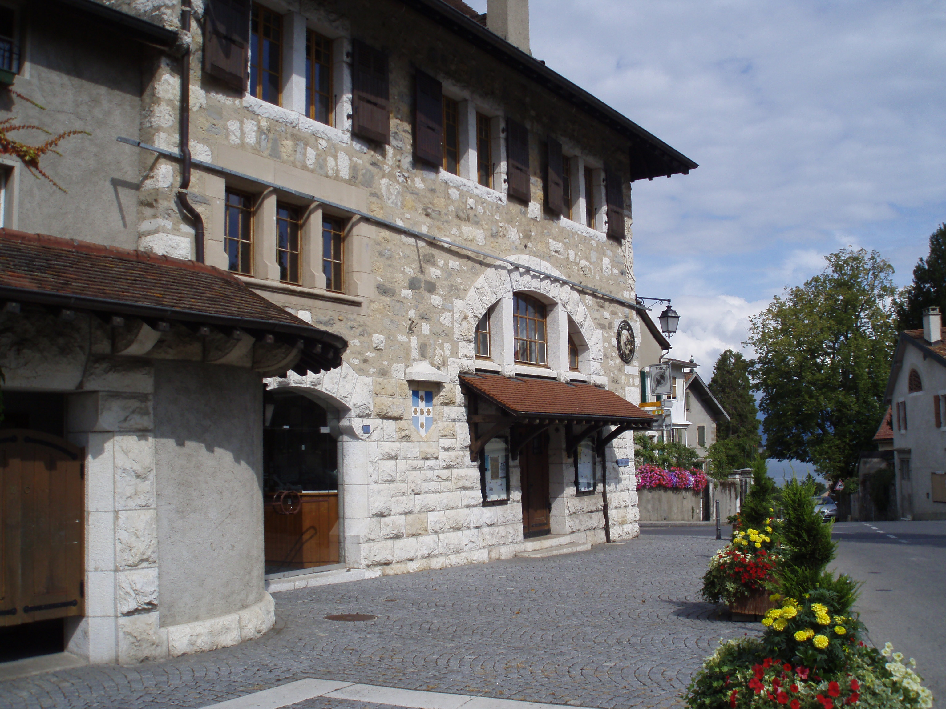 A photo taken in the town of Céligny in the Canton of Geneva, Switzerland.